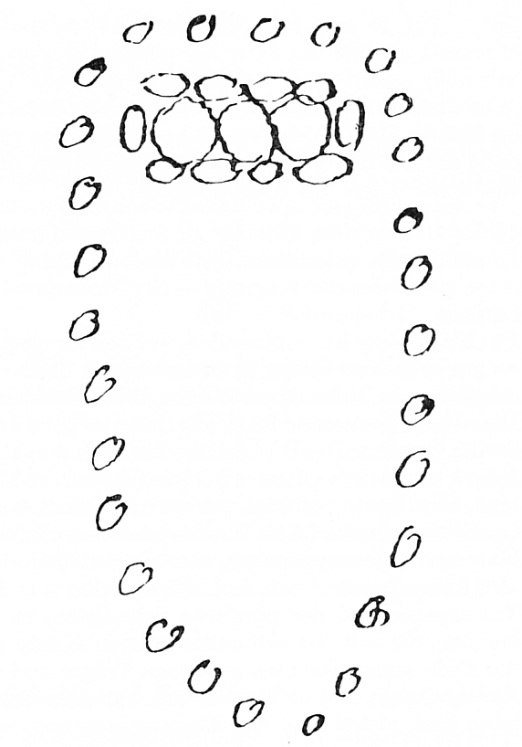 Megalithic Tomb Dumsevitz 3 (Sprockhoff-No. 481)